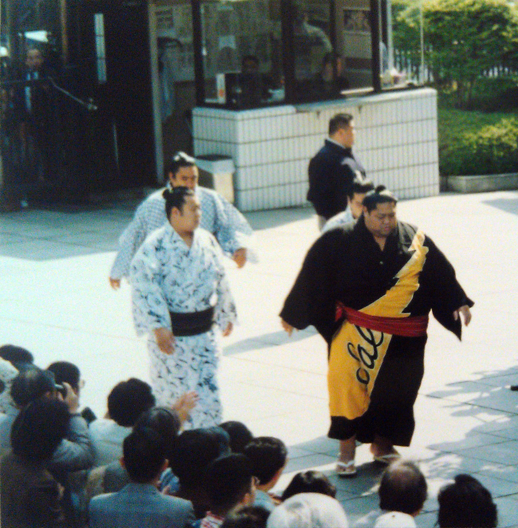 Sumo wrestler Konishiki Yasokichi and entourage, Ryogoku, Tokyo